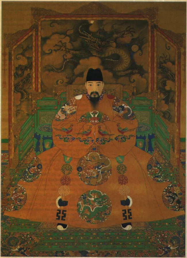 Court portrait of the Hongzhi Emperor (r. 1488–1505).